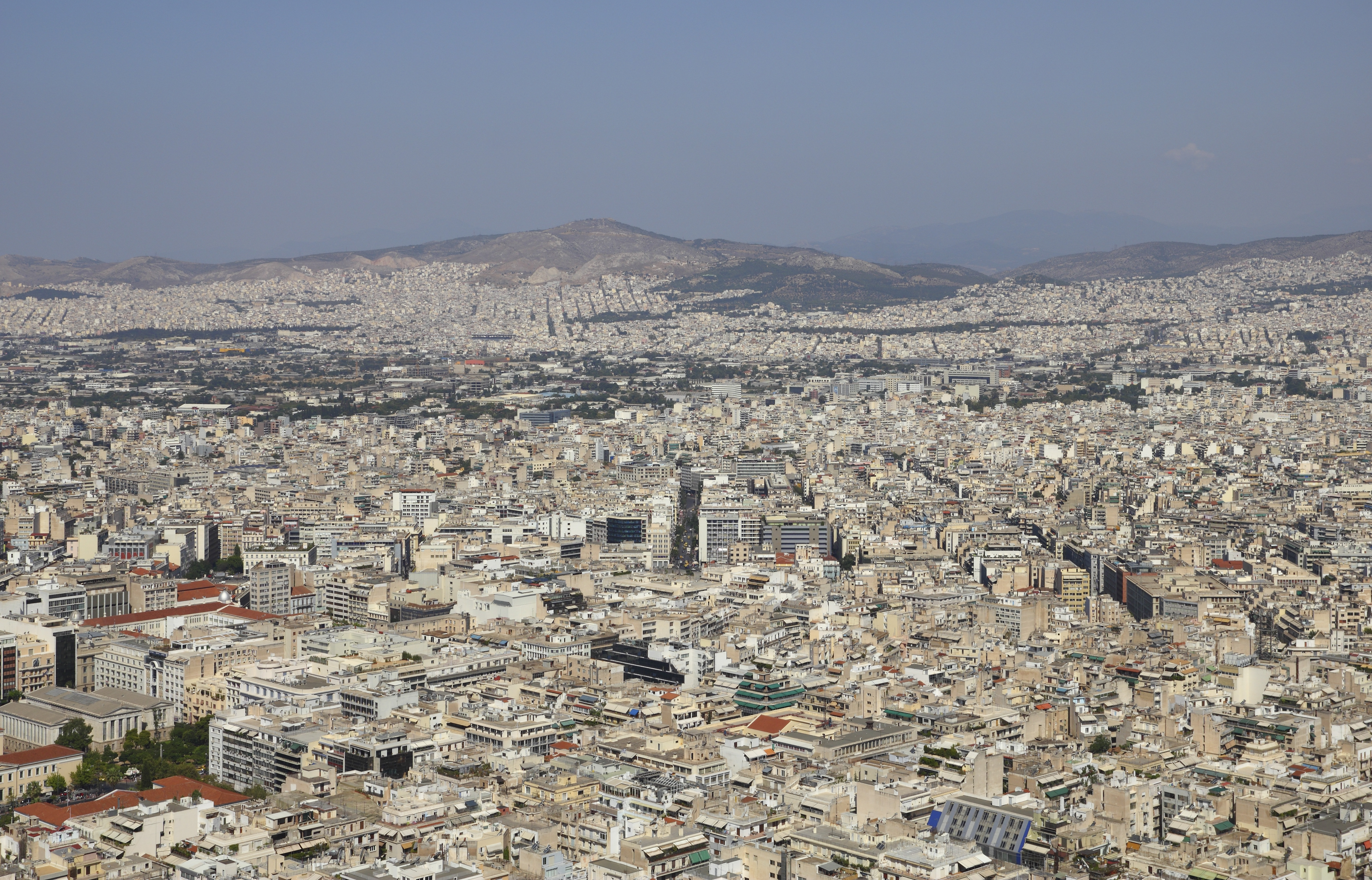 View from Lycabettus in Athens (Attica, Greece)